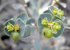 Euphorbia portlandica, flowers, Flamanville (Manche) - France